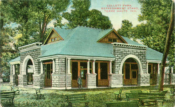 Postcard of Collett Park in Terre Haute, Indiana. The pictured pavilion was designed in 1894 by architect J. Merrill Sherman. Back of card has the text: Made Expressly for S. H. Knox & Co. Printed in Germany"